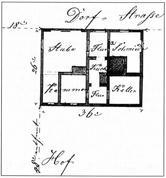 New building with smithy 1857, Dorfstr. 10 in Gömnigk. The village Gömnigk is a part of the town Brück in the district Potsdam Mittelmark, state Brandenburg, Germany, at the border to the natural preserve Naturpark Hoher Fläming.